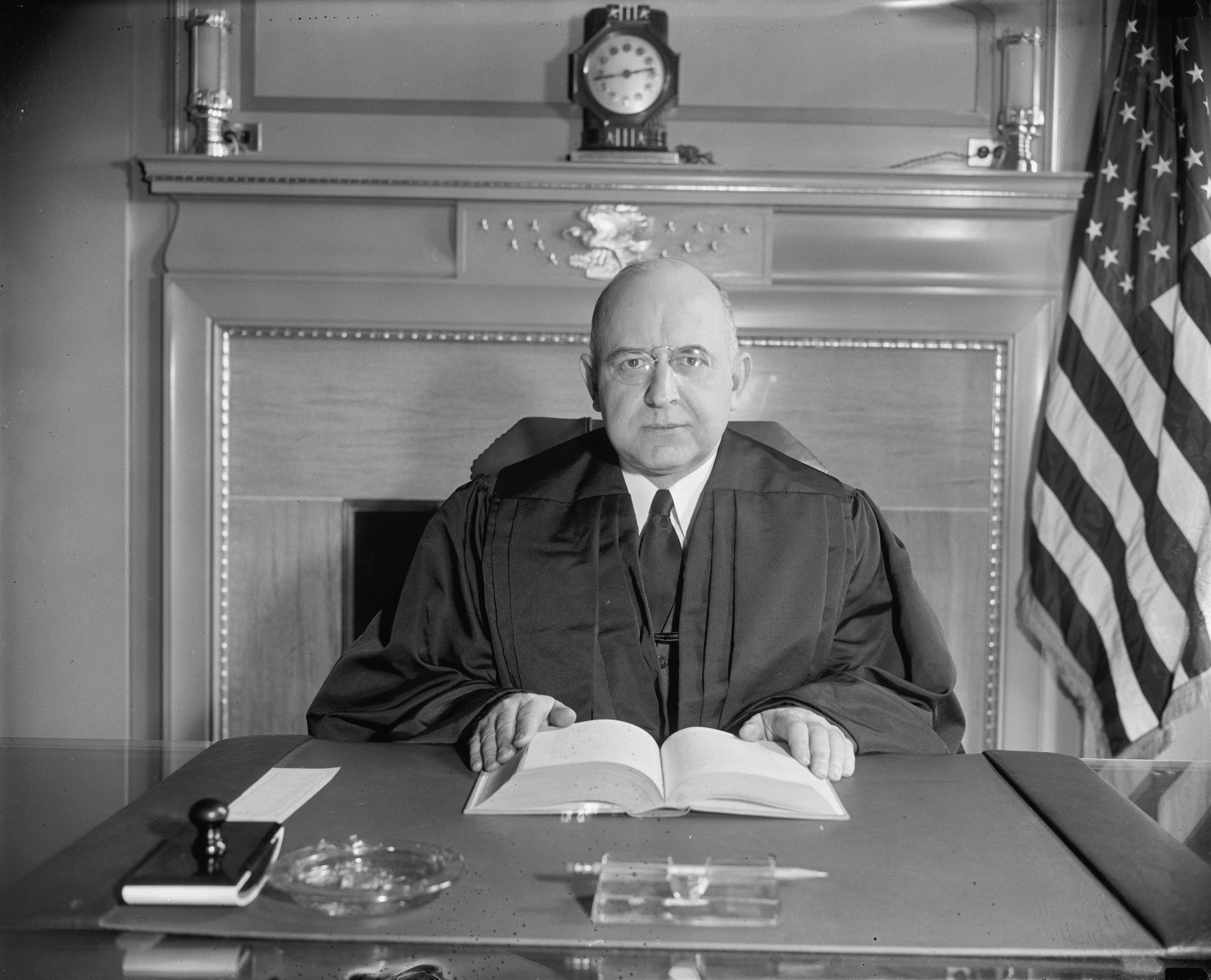 Justice Stanley Reed